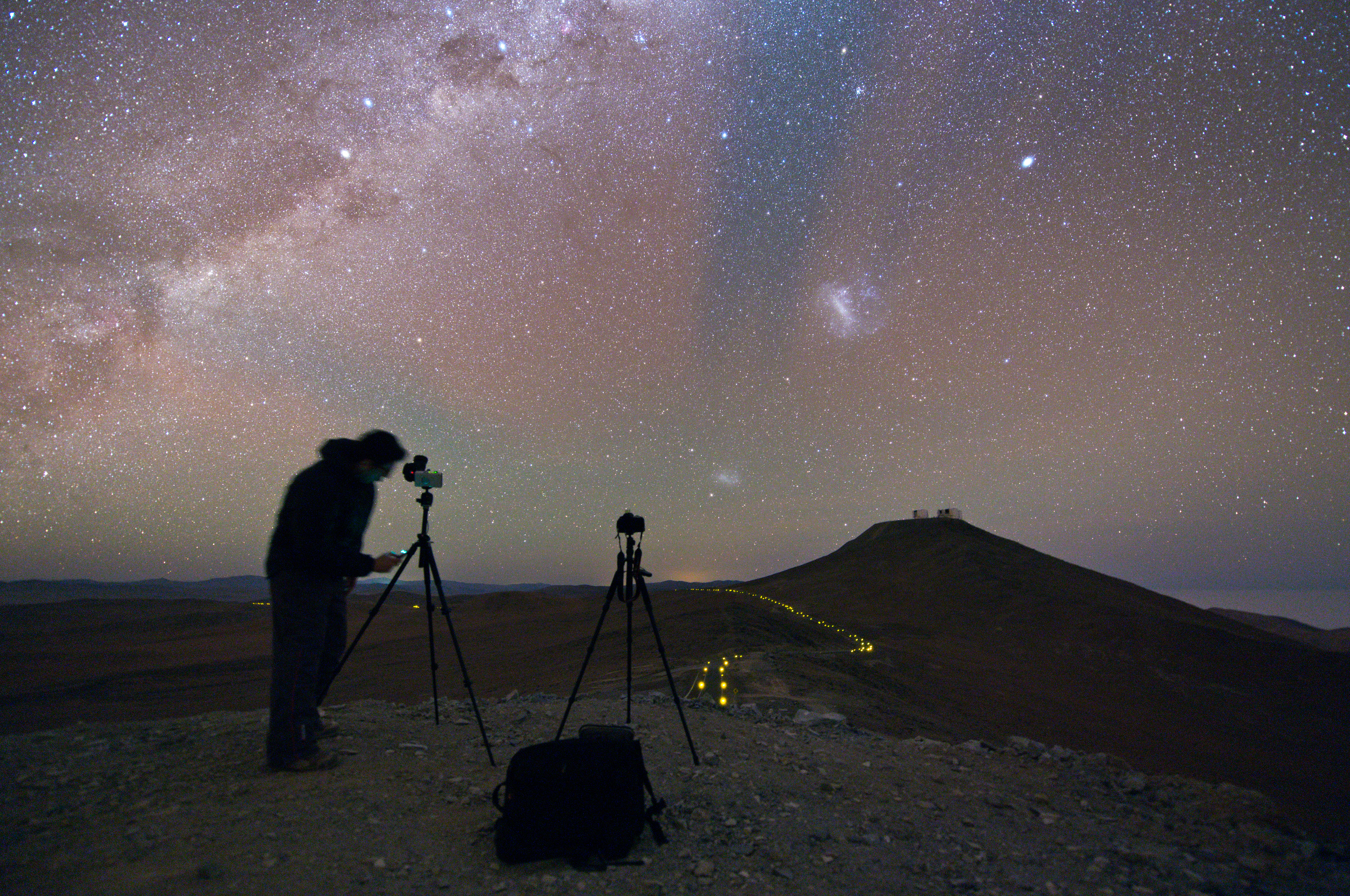 Action shot of the Ultra HD Expedition member Babak Tafreshi as he prepares his camera to capture the glittering canvas of the night sky. The red and green glow in the sky is due to airglow in the upper atmosphere.